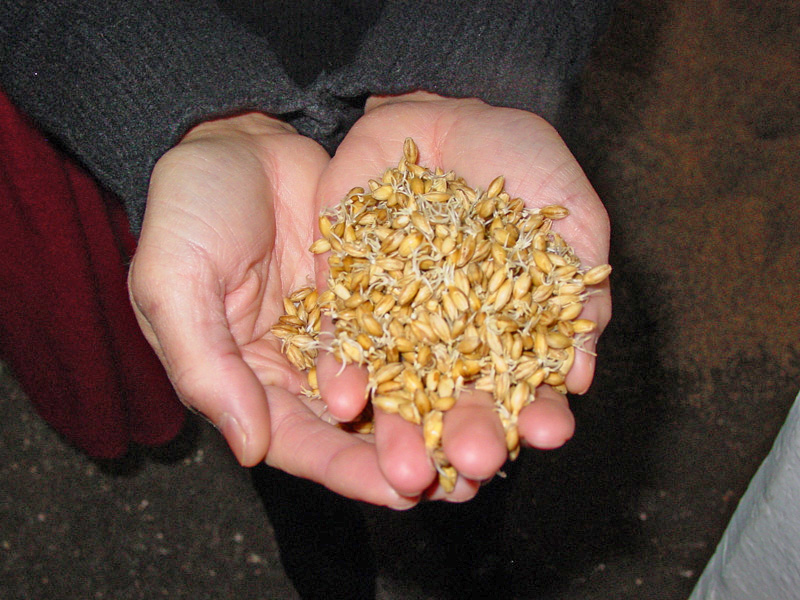 Malted (germinated) barley for Single Malt Scotch in the malting room at the Laphroaig distillery on Islay in Scotland. Taken by my friend SJB at Laphroaig on 24 October 2002, and released under GFDL with his consent.